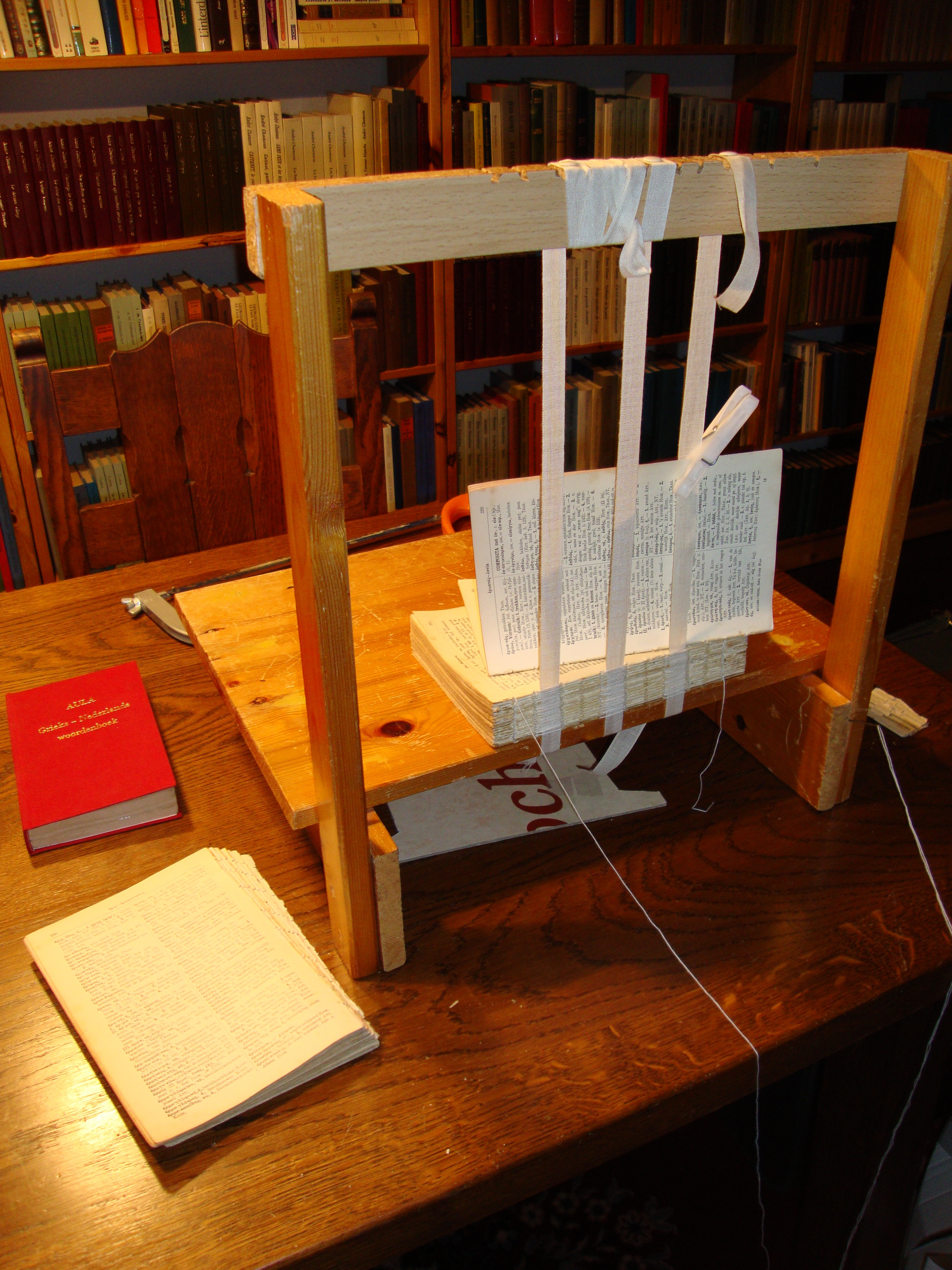 Sewing frame for bookbinding